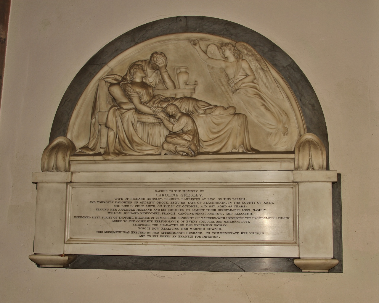 Wall-mounted monument in the parish church of St Nicholas, Kenilworth, Warwickshire. Sculpted by Richard Westmacott to commemorate Caroline Gresley, who died in 1817.